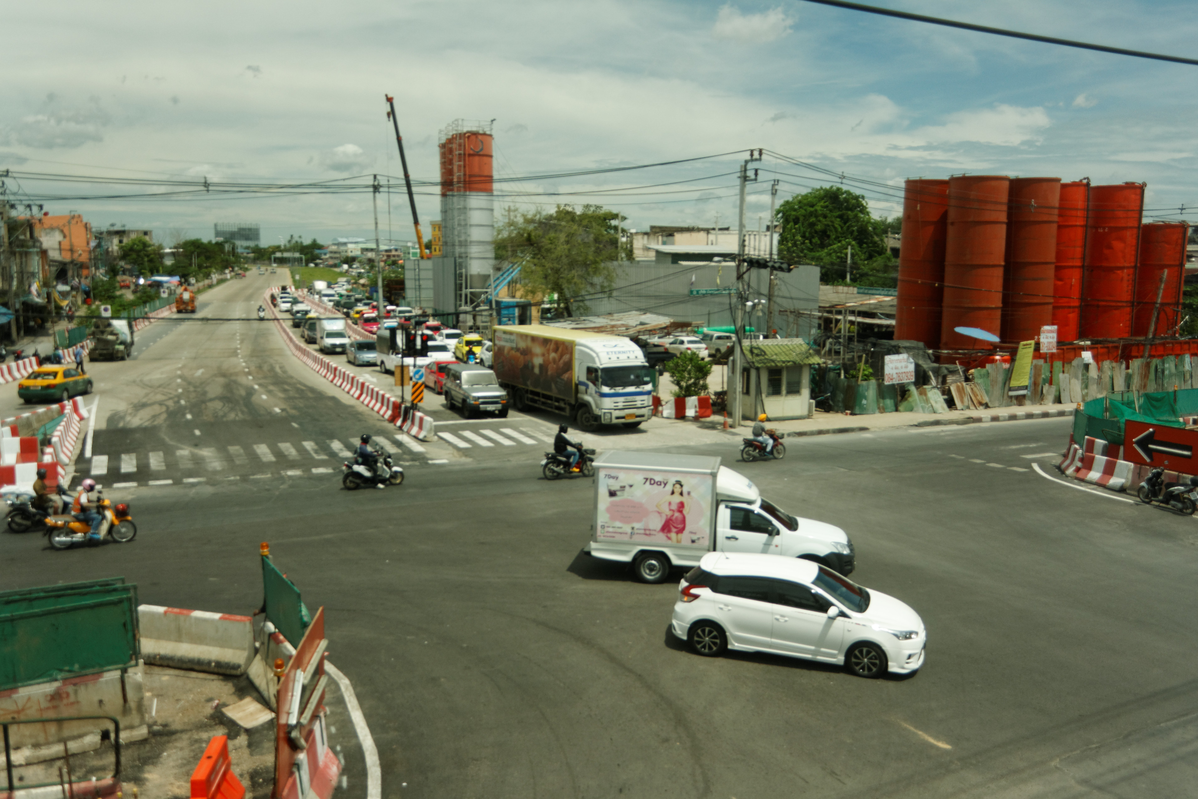 Fai Shai Intersection in Bangkok, Thailand. Photo of 2016 when construction of MRT bridge started.